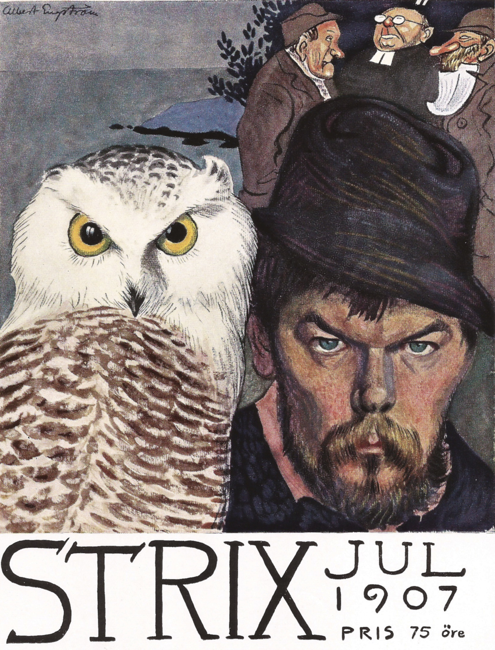 Self-portrait with an owl on the cover of the Christmas issue of Strix ("owl")